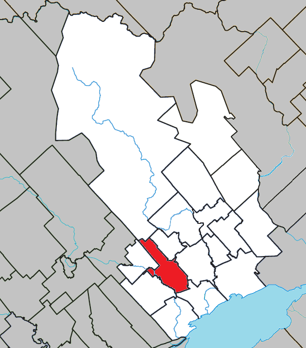 Location of Sainte-Ursule, Quebec within Maskinongé Regional County Municipality.